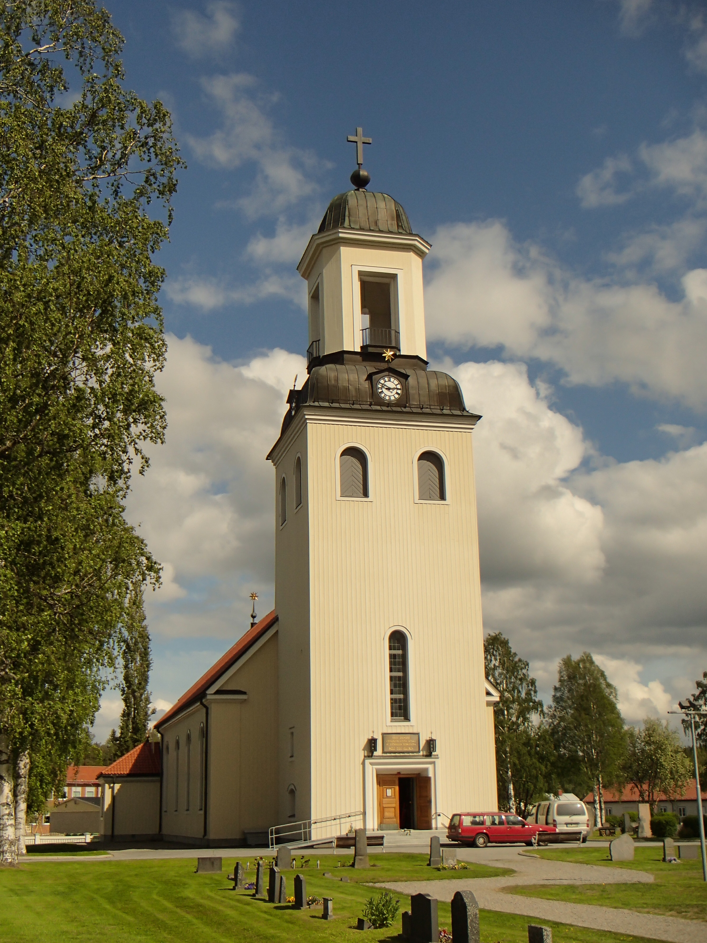 The church building of "Bjurholms kyrka" at Bjurholm in Bjurholm Municipality